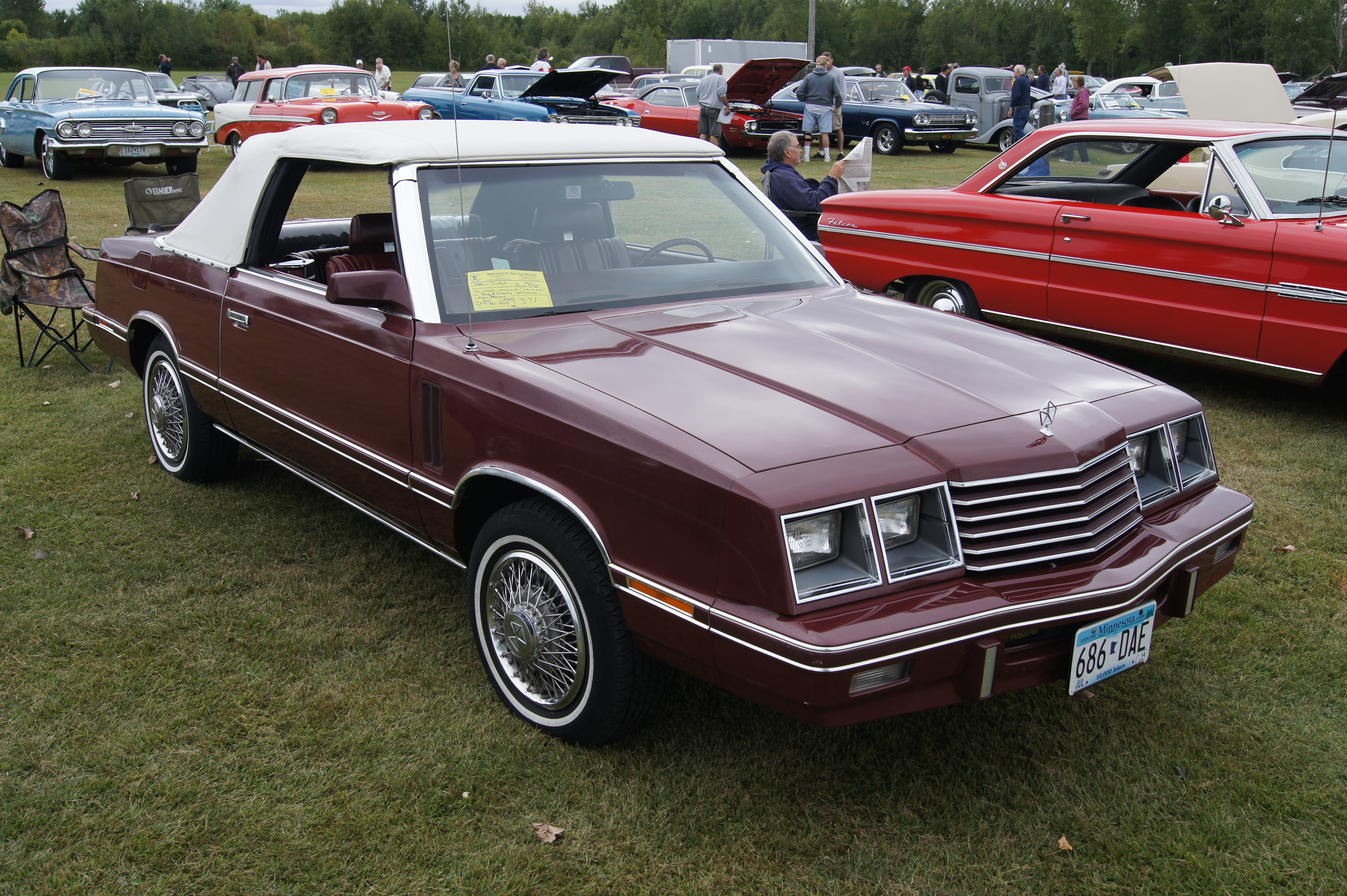 North Star Chapter Studebaker Drivers Club 13th Annual Labor Day Car Show September 2, 2013 Blacksmith Lounge Hugo, MN